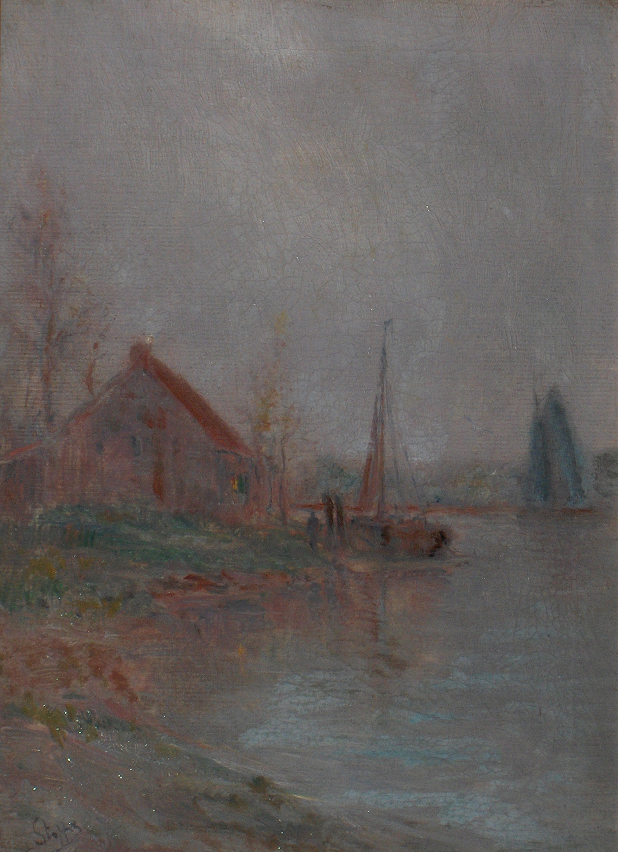 "Morning fog over the River Schelde" by Romain Steppe (1859-1927); oil painting on canvas; private collection